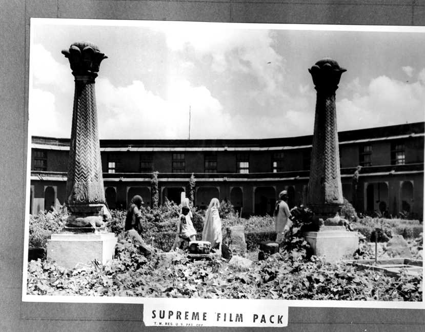 DPD/Aug.49, A04dThe archeological museum, Mathura. One of the best celebrated of India’s museums. This contains a rich collection of sculptures, inscriptions and other antiquities of the historic district of Mathura which was the birthplace and the scene of the activities of Lord Krishna during the early part of his life. Photo Number:-10794